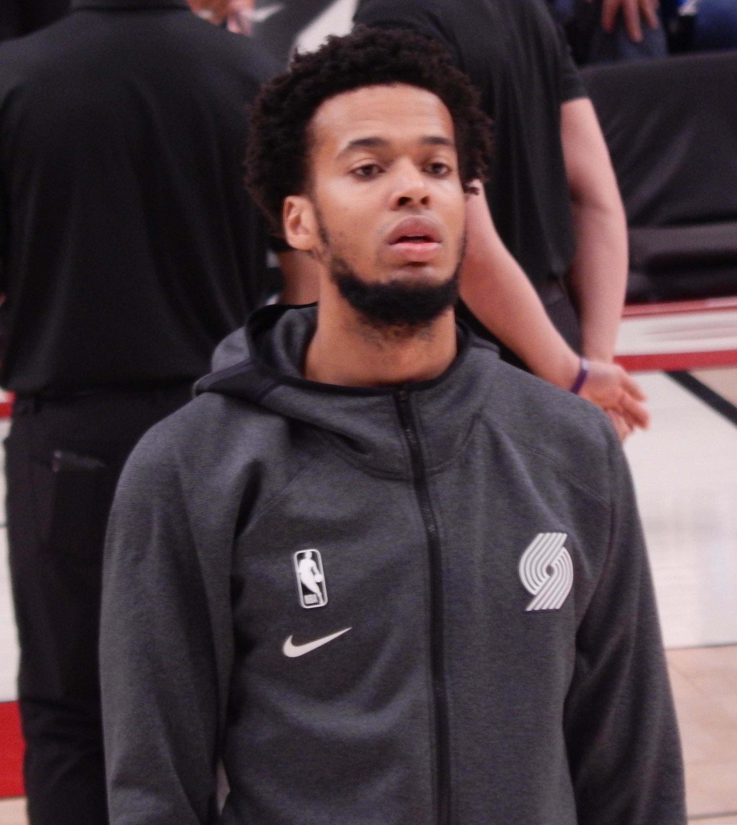 Skal Labissière #17 of the Portland Trail Blazers warms up before the start of the game against the Sacramento Kings on December 4, 2019 at the Moda Center Arena in Portland, Oregon.